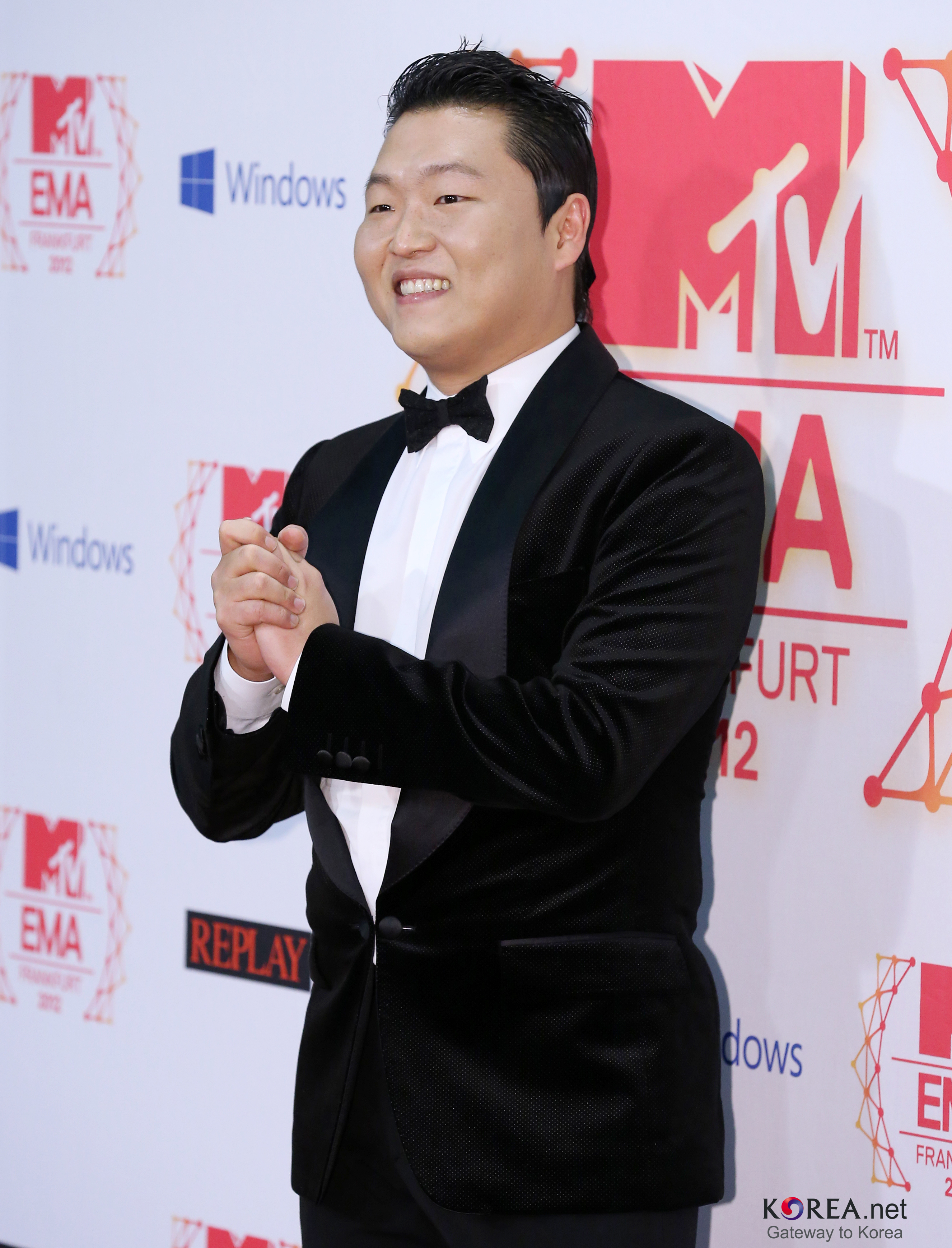 2012 EMTV Award. PSY won 'Best Music Video' Award by 'Gangnam Style'. Frankfurt, Germany